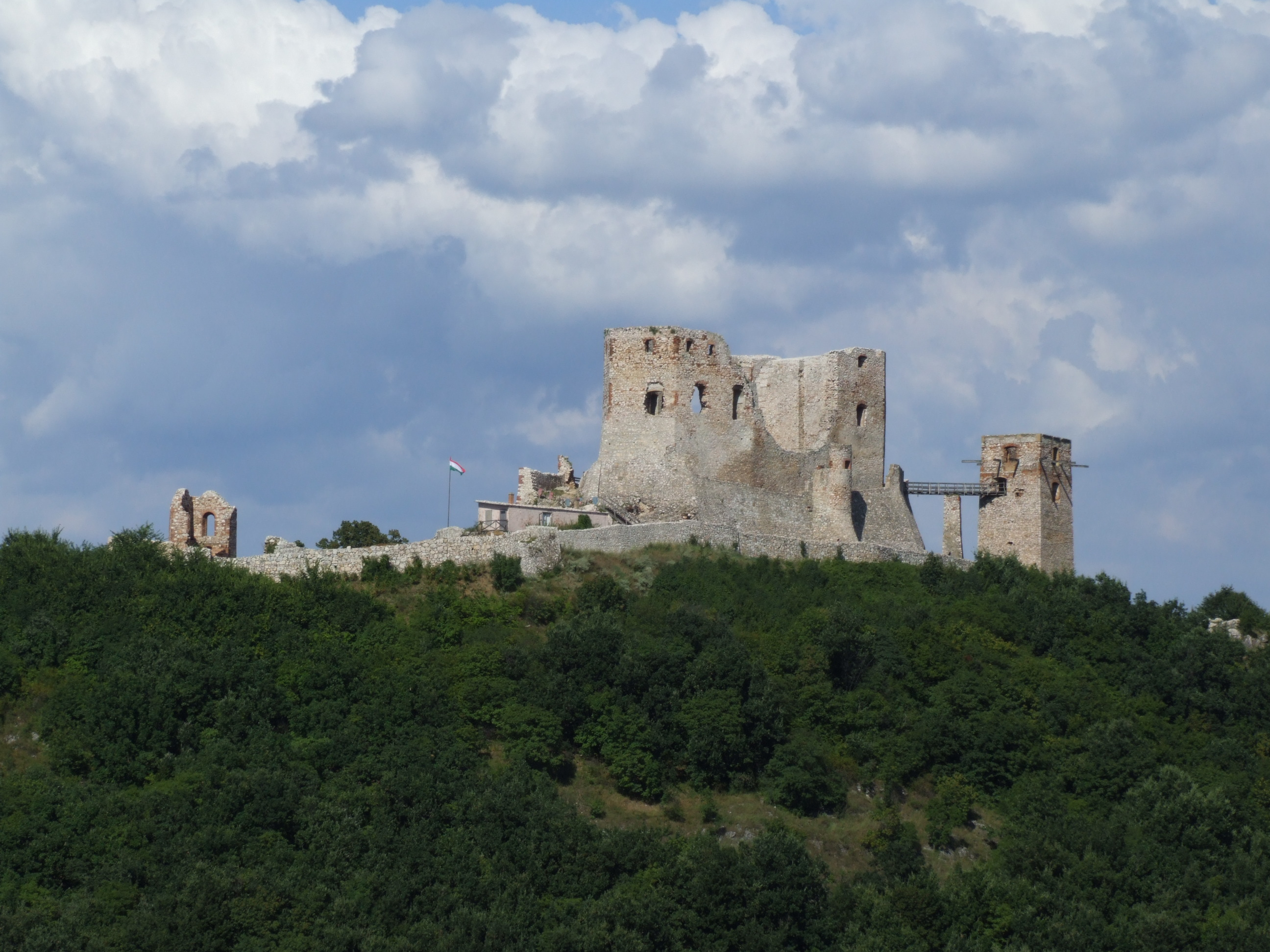 Castle of Csesznek, Hungary